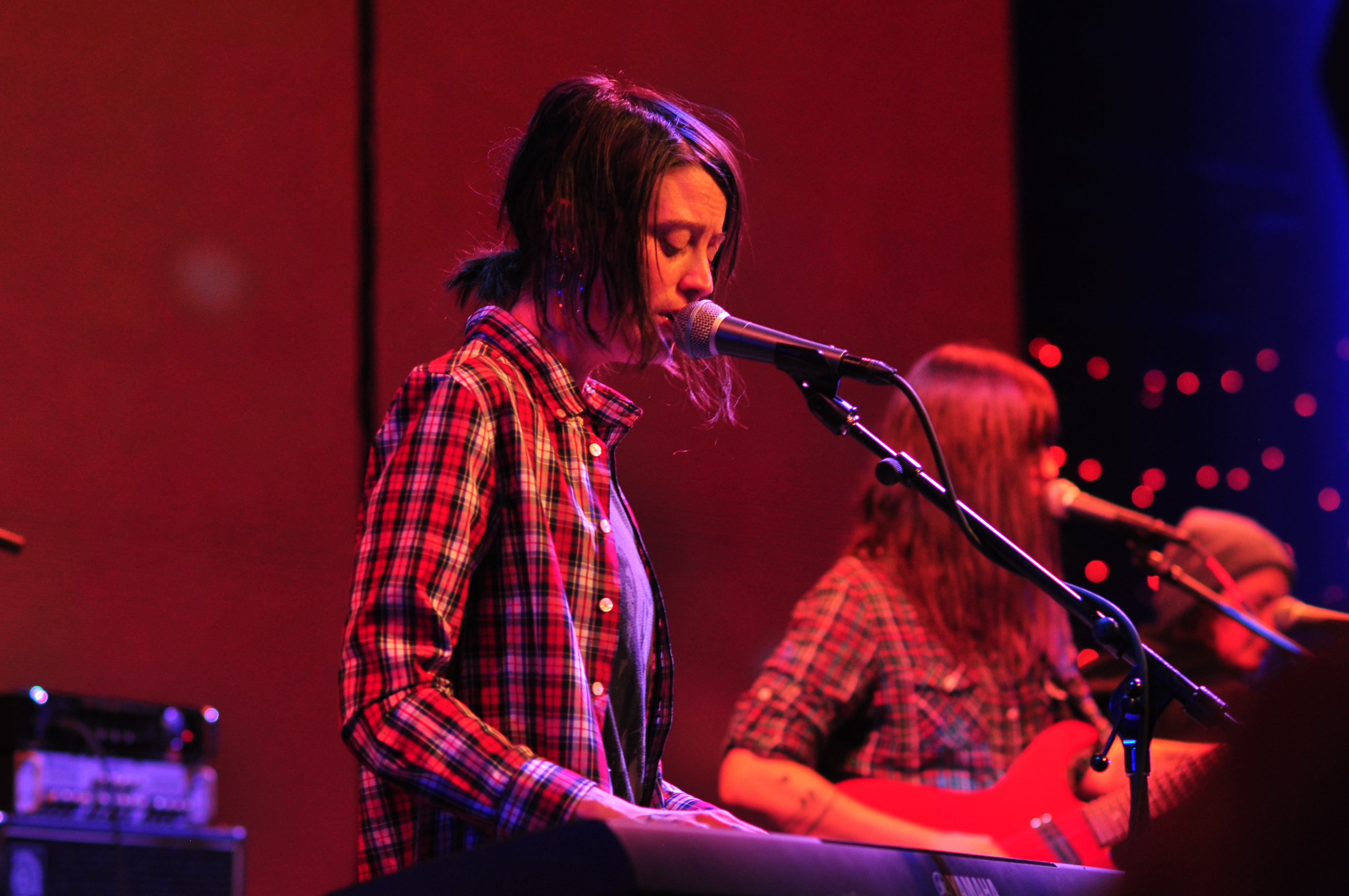 Seattle musician Jenn Ghetto (in foreground), who performs under the name "S", performing Friday, April 17, 2015 as part of Pop Conference 2015. Sky Church of EMP Museum, Seattle, Washington.